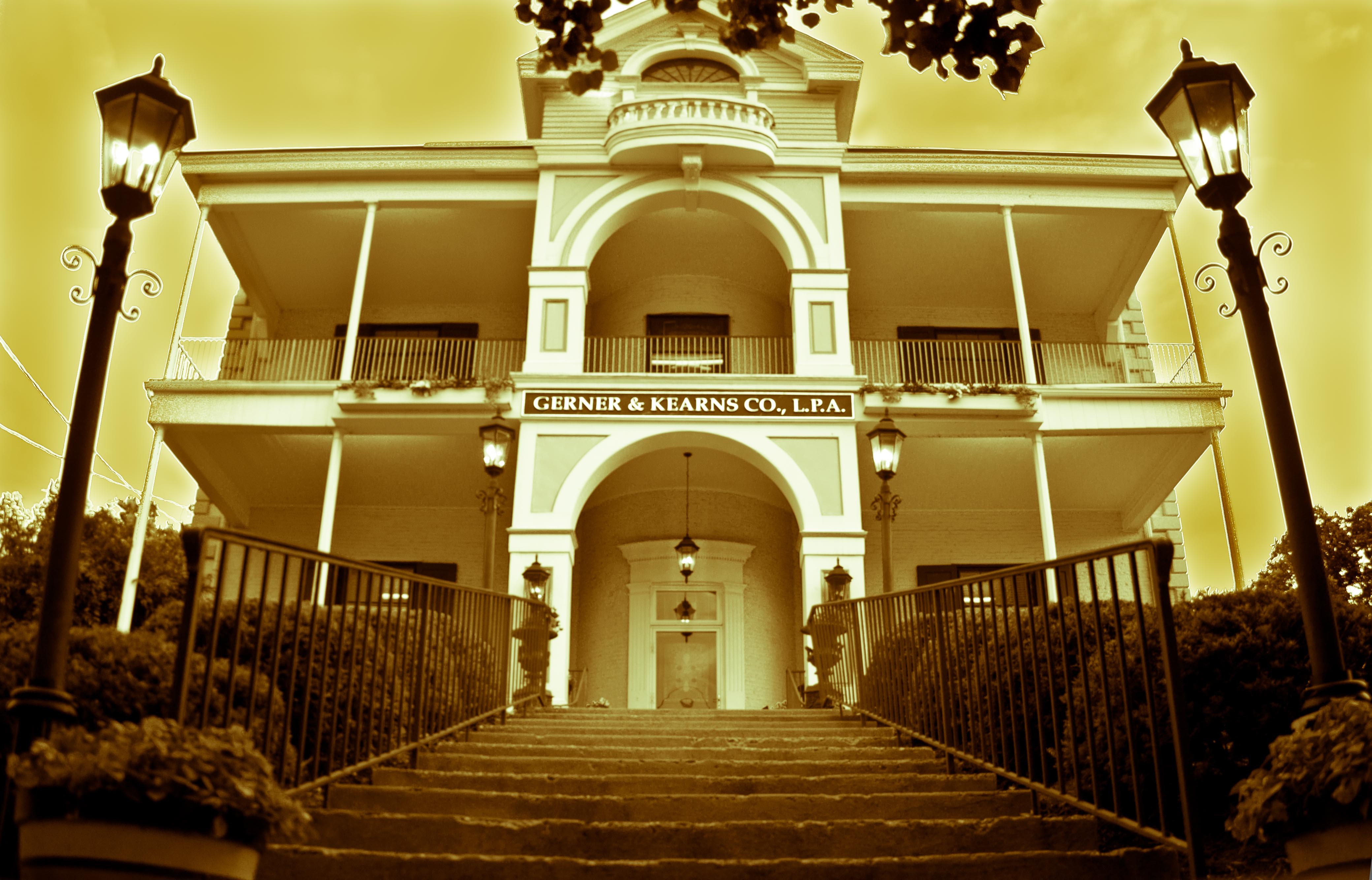 Front of Bellevue, the General James Taylor Mansion, located at 335 E. Third Street in Newport, Kentucky, United States. Built in 1845 and subsequently remodelled, it is listed on the National Register of Historic Places, and it is part of a Register-listed historic district, the Mansion Hill Historic District.